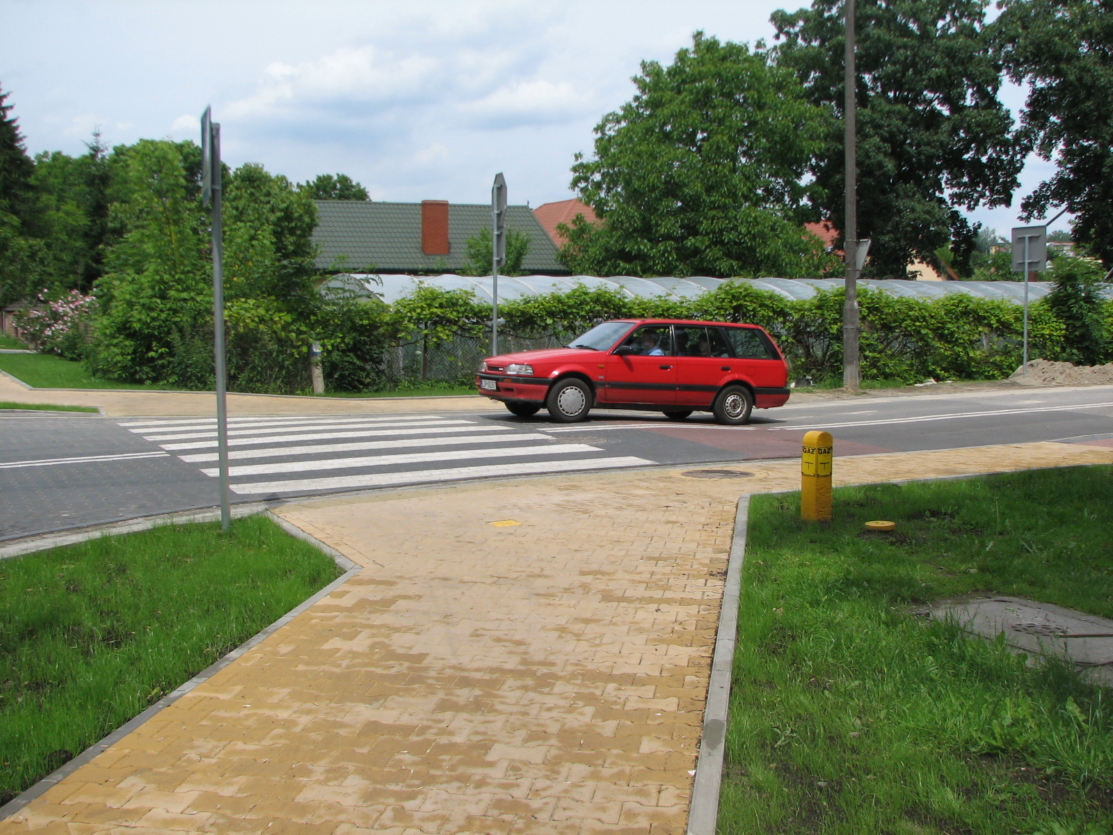 Raised intersection in Poland.